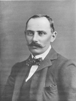 Bryan Mahon, British Army general and Irish Free State Senator.